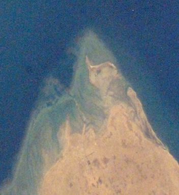 Satellite imagery of northern Qatari Peninsula taken by NASA in 2007.